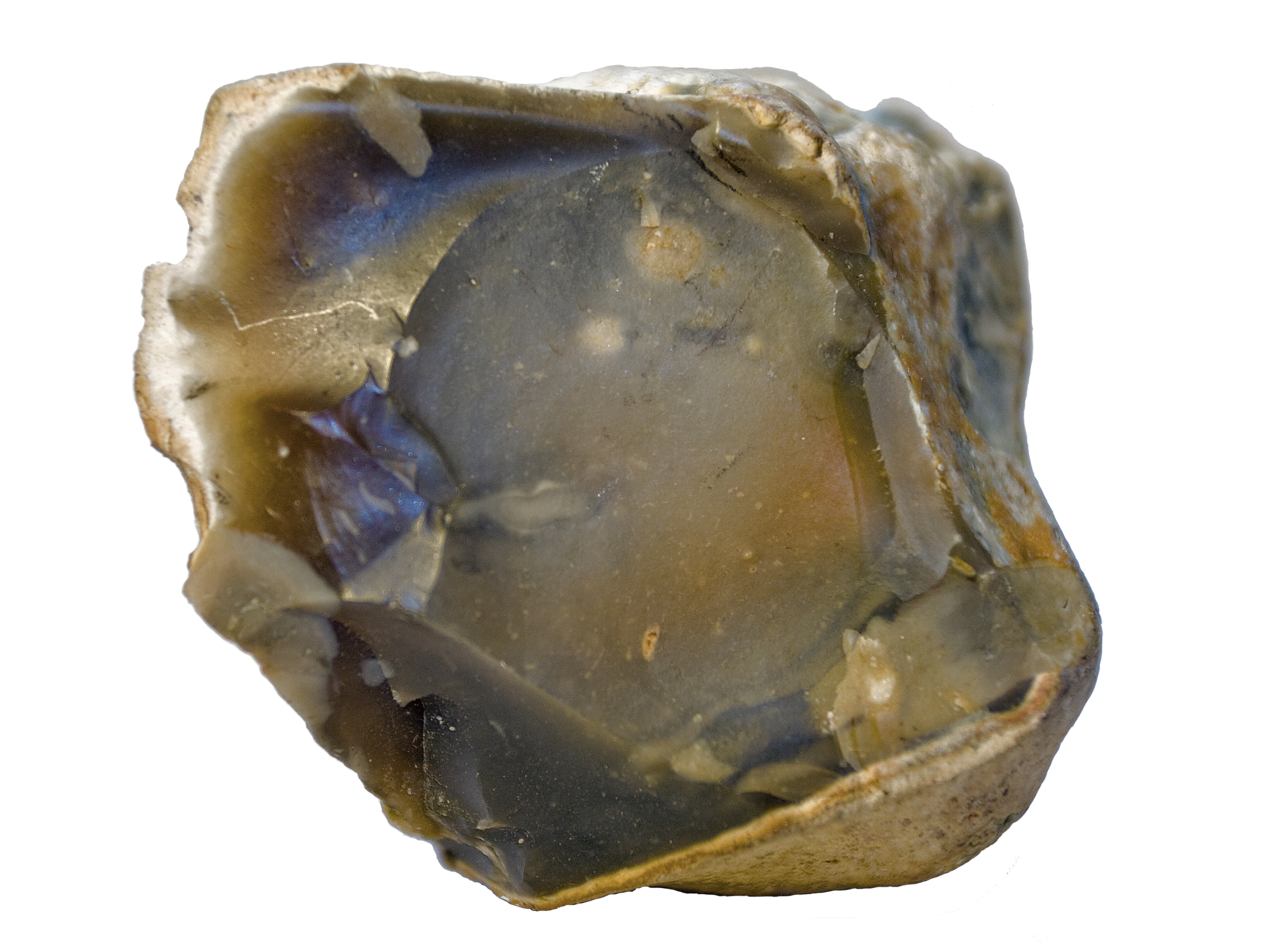 Flint